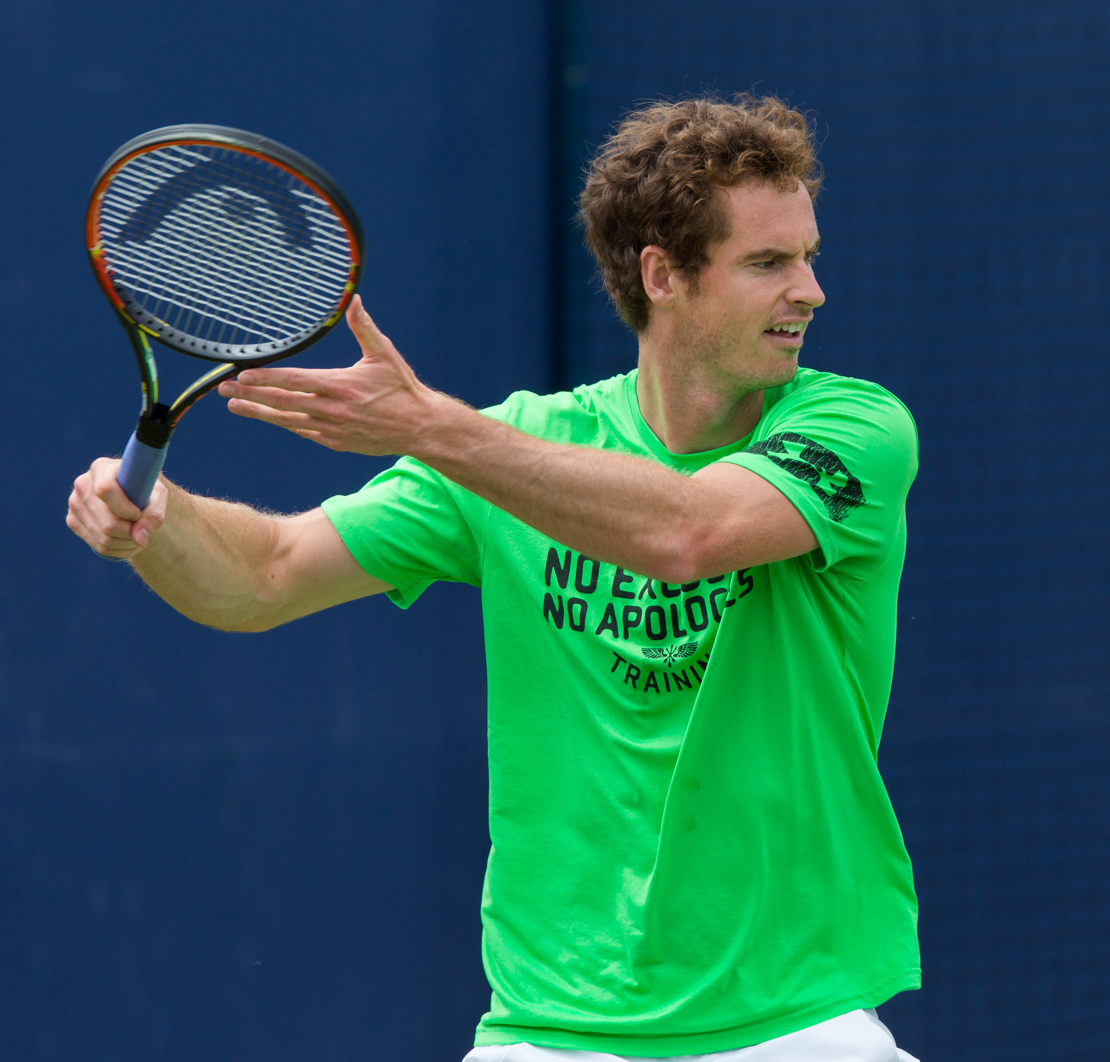 Andy Murray during practice at the Queens Club Aegon Championships in London, England.